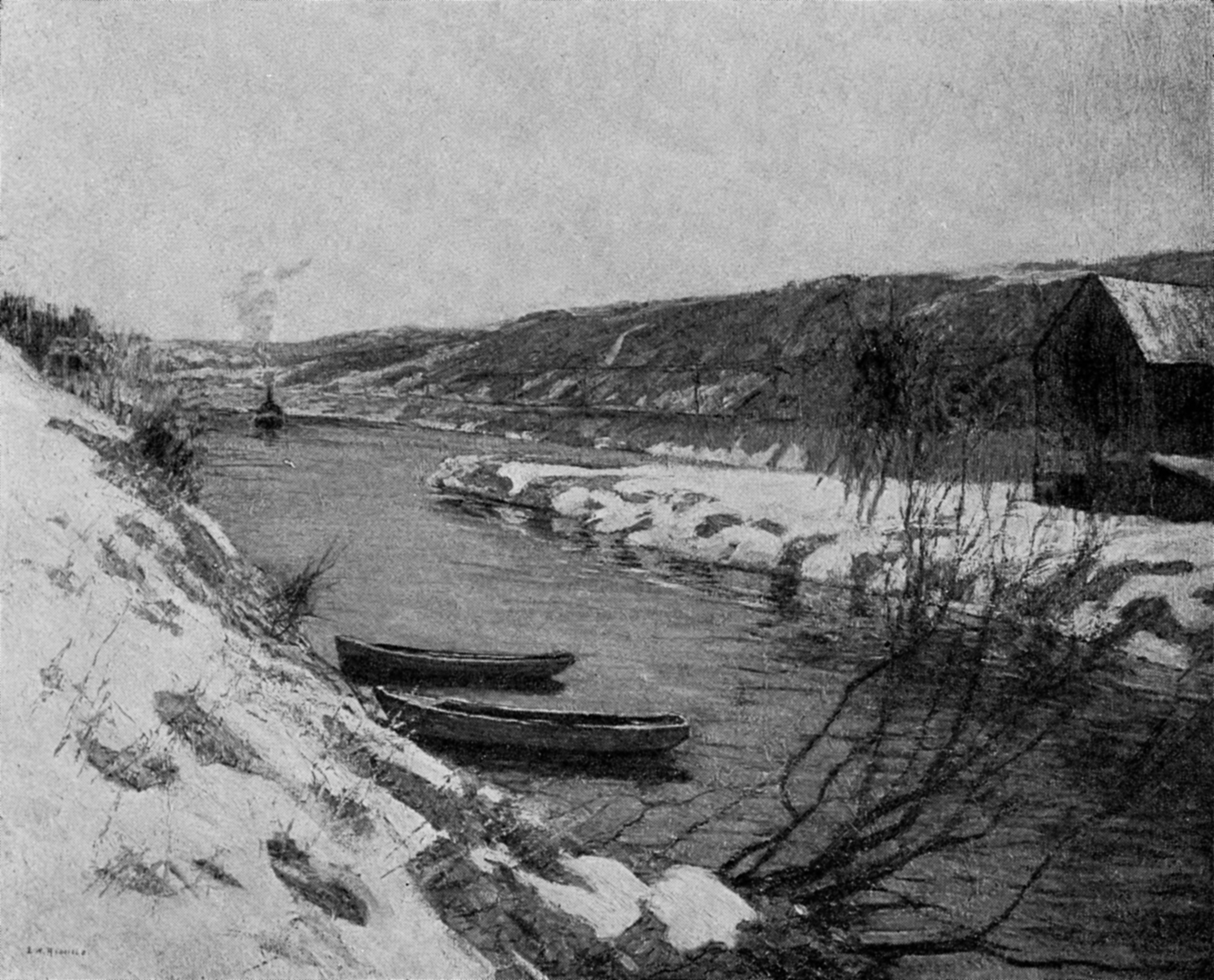 Black-and-white print reproduction of painting "The Canal, Evening." From the materials for the Alaska-Yukon-Pacific Exposition of 1909, held in Seattle.